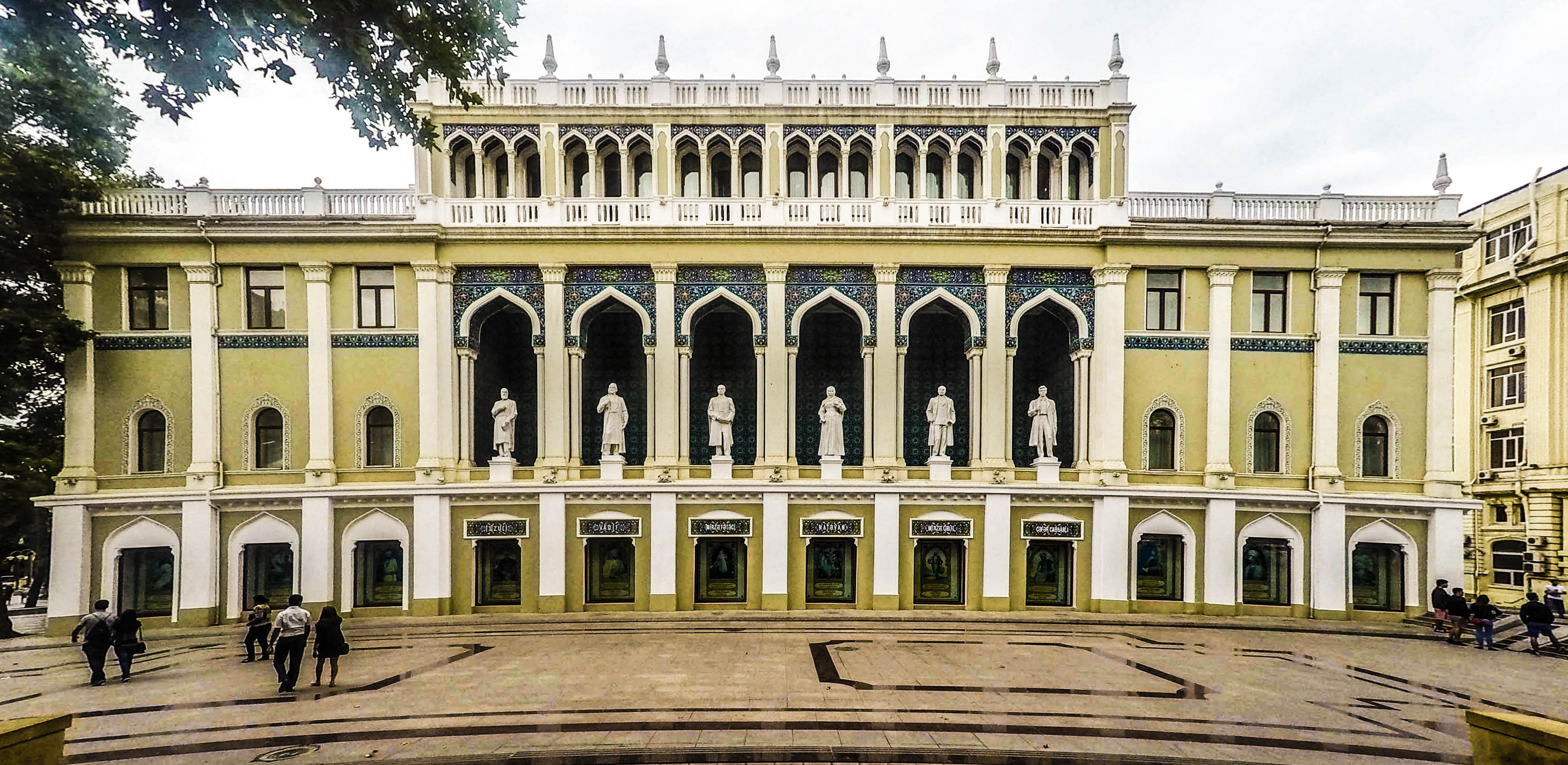 Nizami Museum of Azerbaijan Literature main façade, Baku, 2015